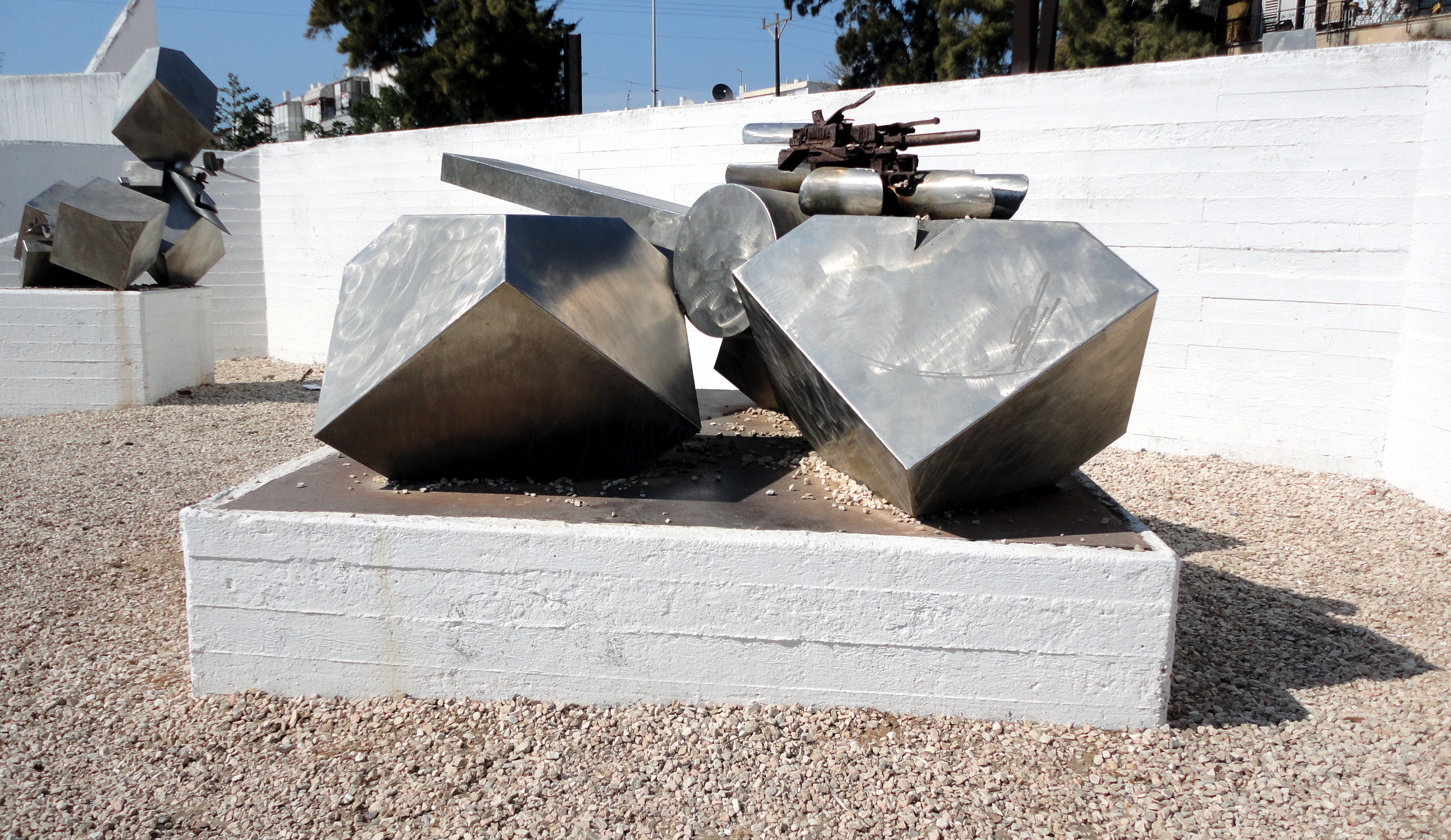 Holon sculpture Garden